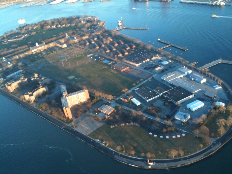 Governor's Island from air